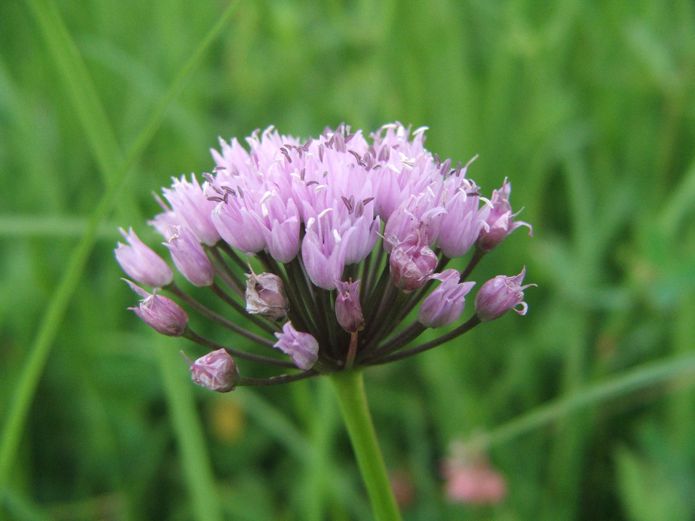 Allium angulosum